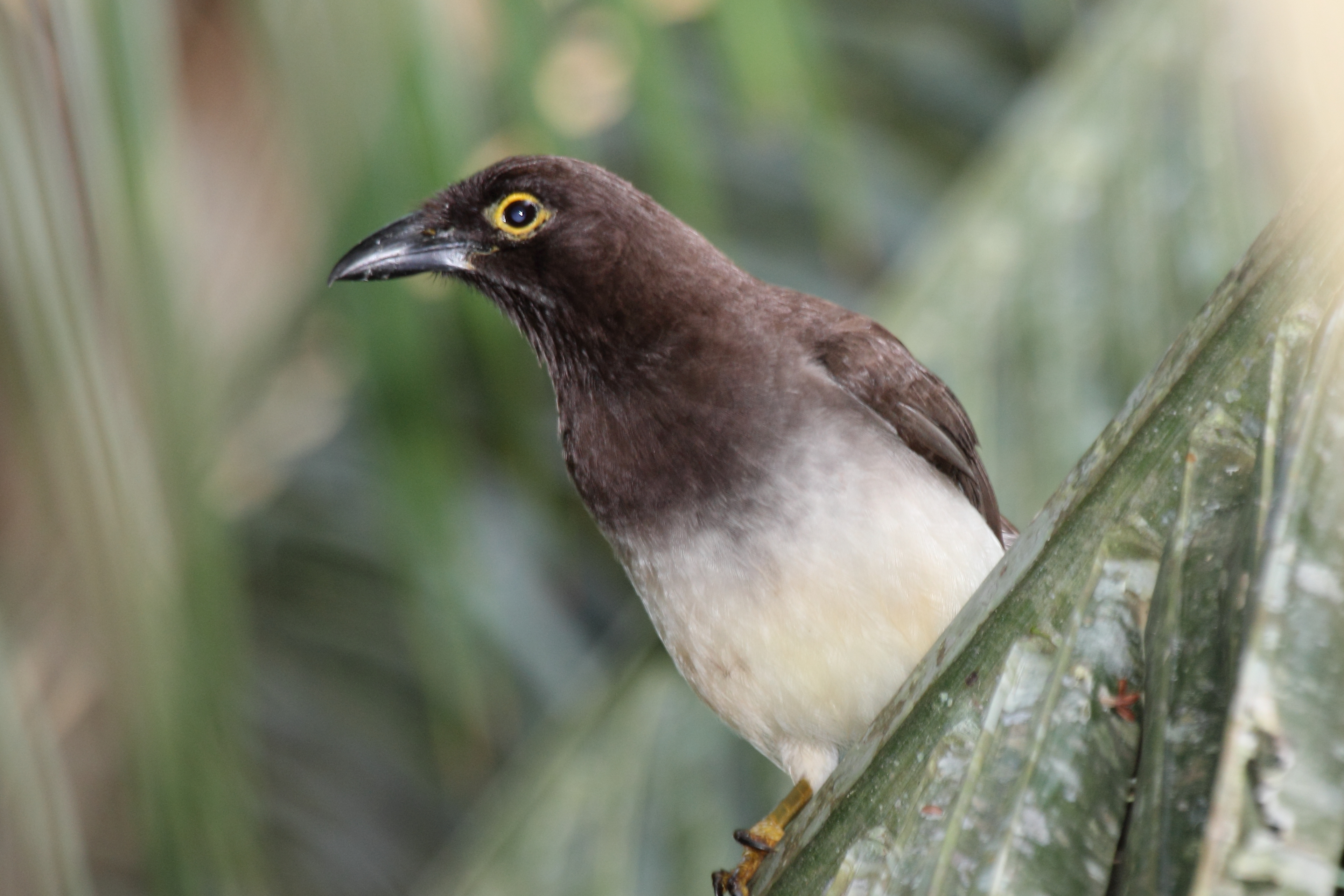 Brown Jay ((Psilorhinus morio))